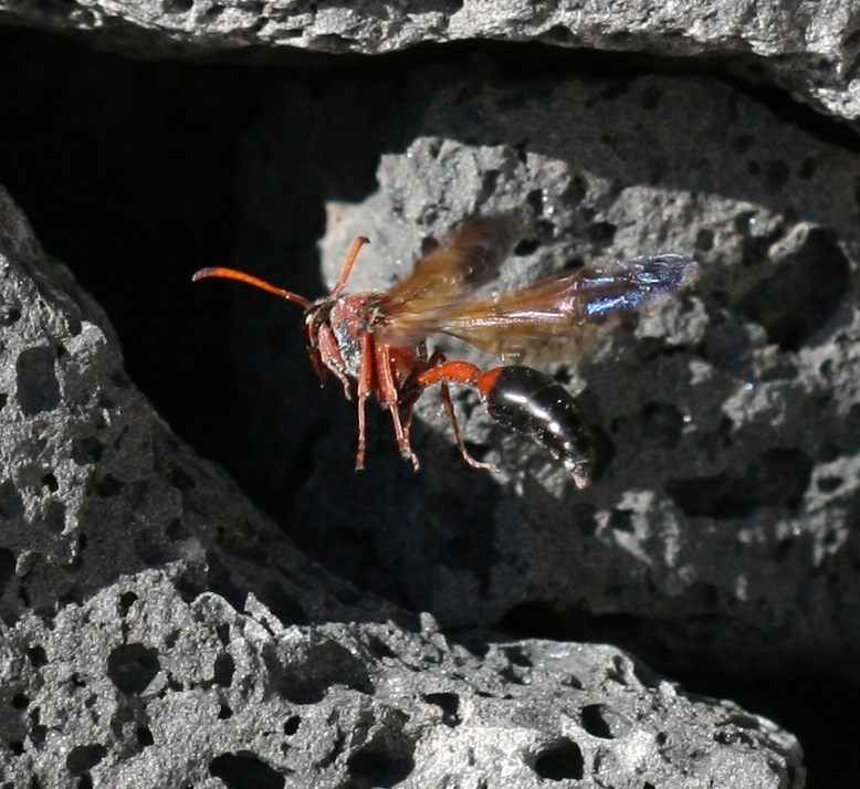 a Eumeninine wasp. Photographed on Lanzarote, Spain.